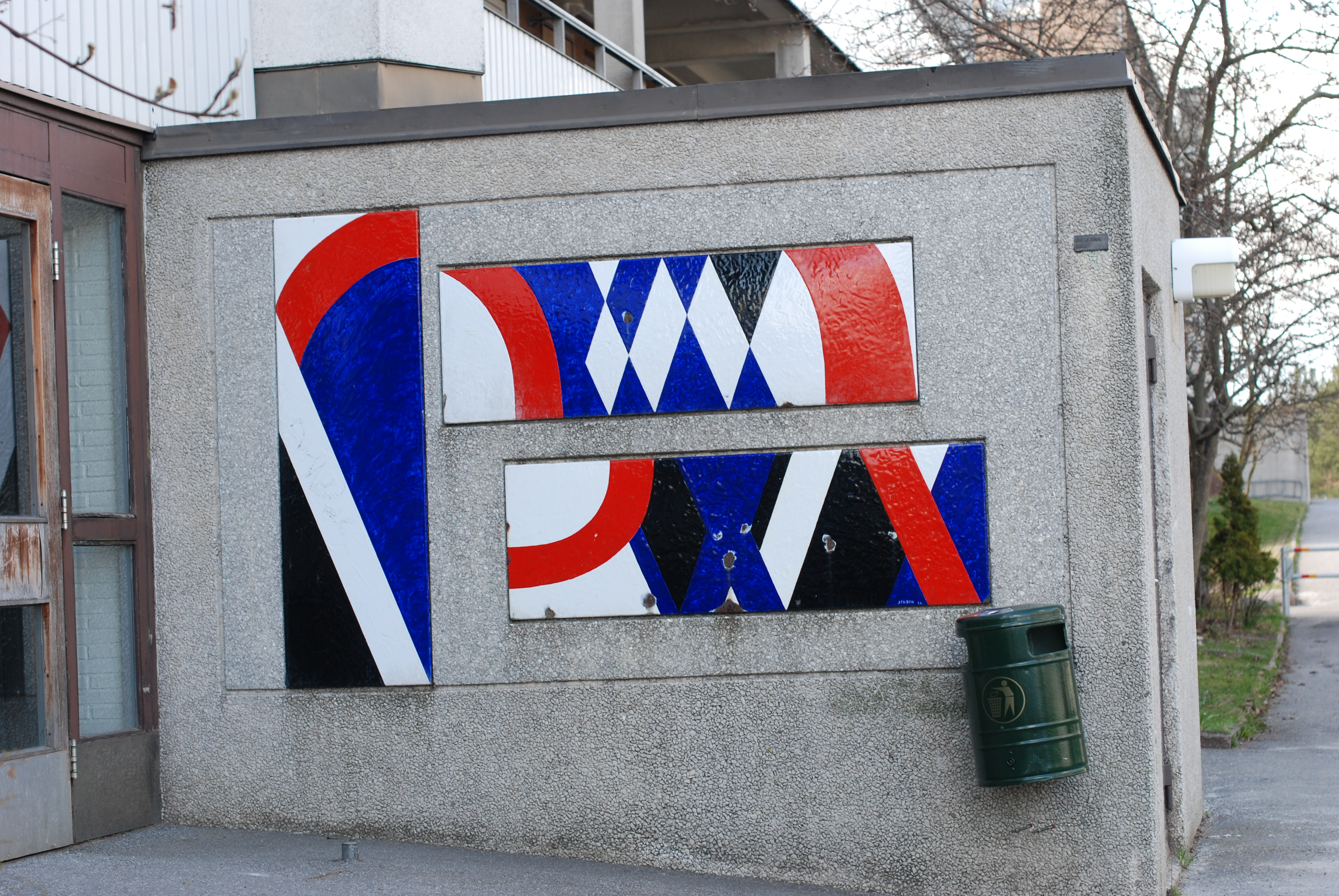 Erik Jensen´s enamel painting Dekor, Östberga, Stockholm, Sweden